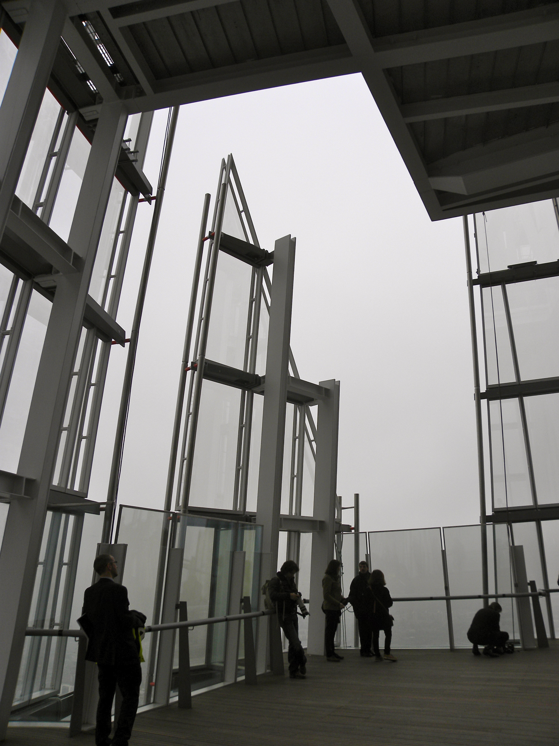 The View from The Shard, the observation deck of the Shard London Bridge, London, UK.